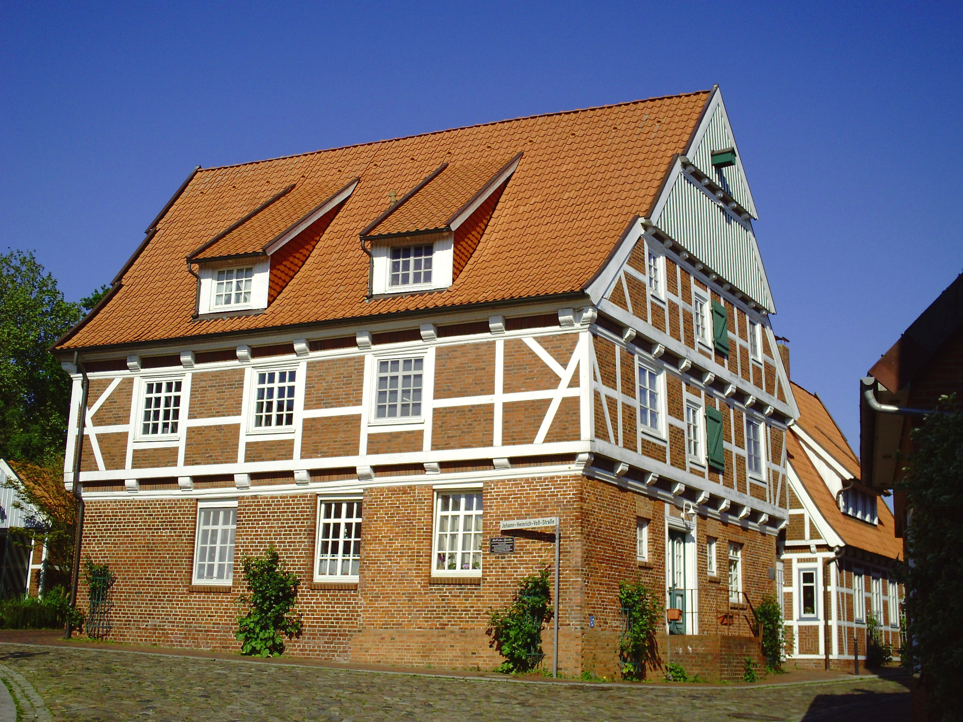 The Bullsche Speicher, a former granary in Otterndorf (Lower Saxony, Germany)